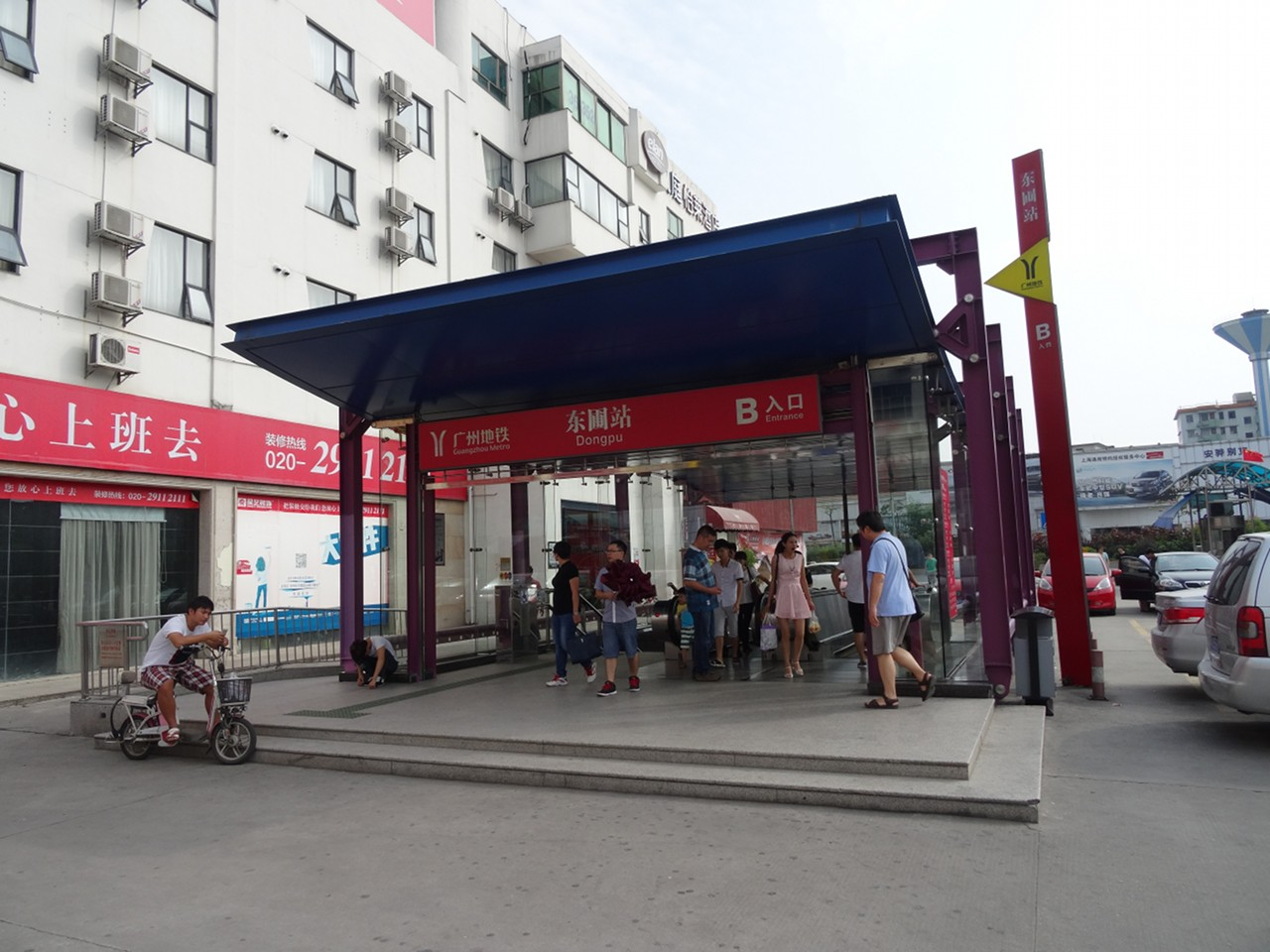 東圃站B出入口